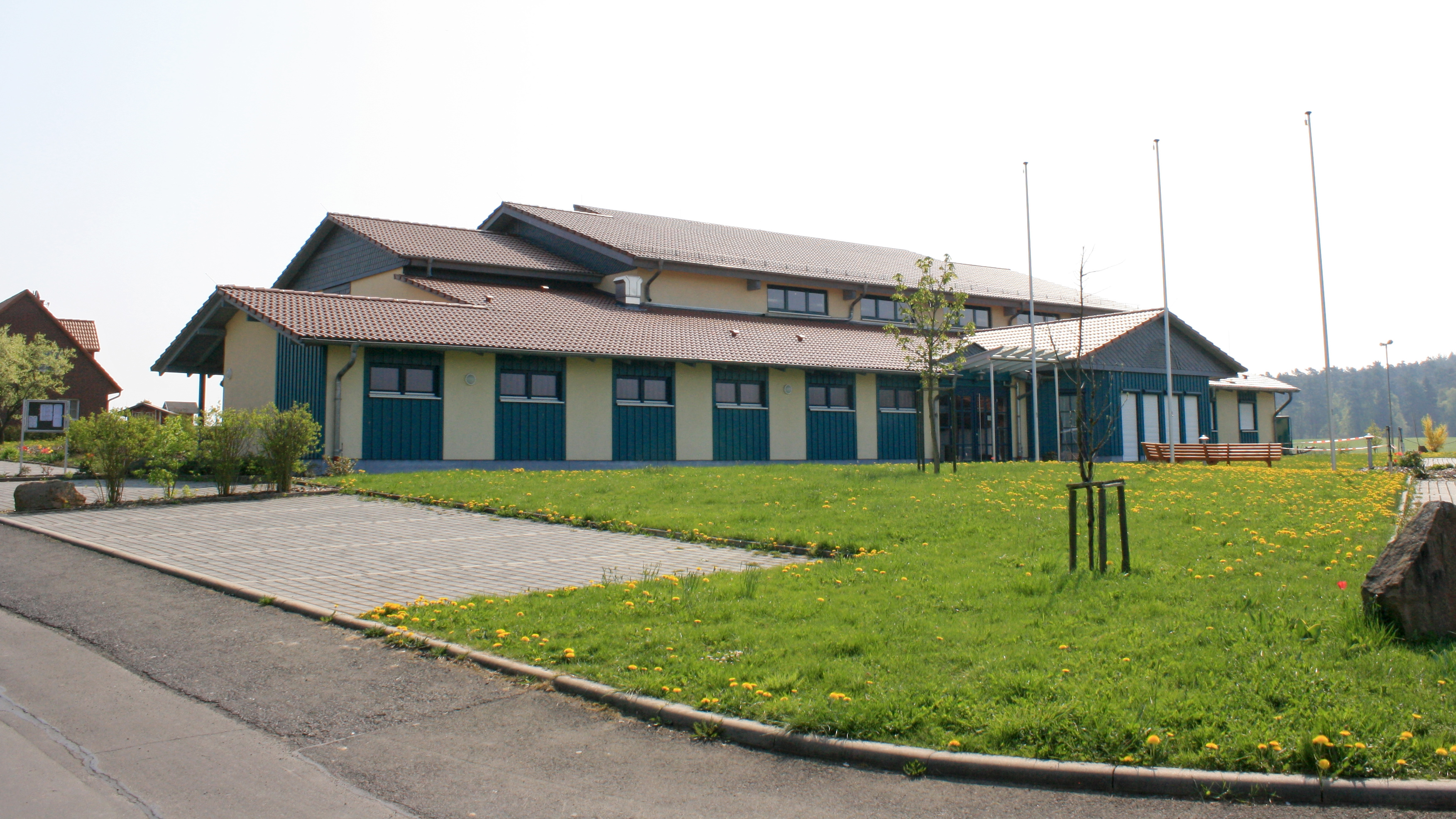 The multipurposehall in Bracht (Rauschenberg)